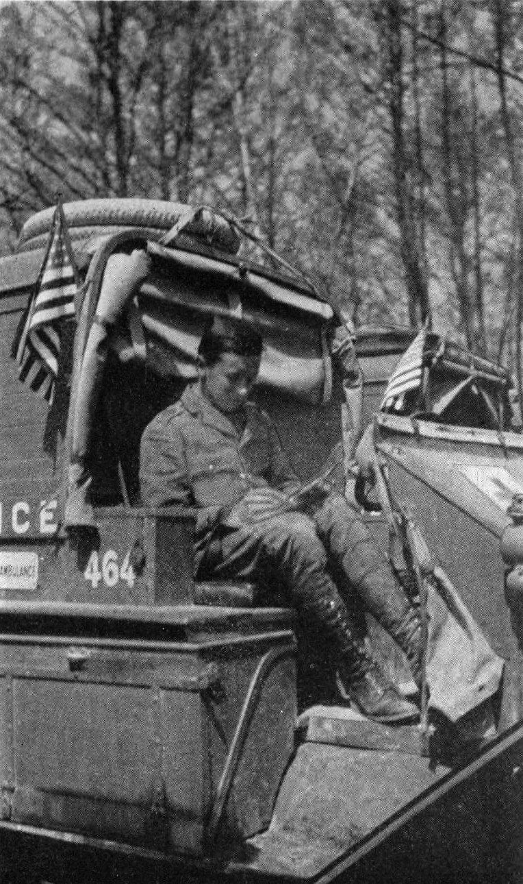 World War I in France: Original caption: "The author working on his diary on the front seat of"464""